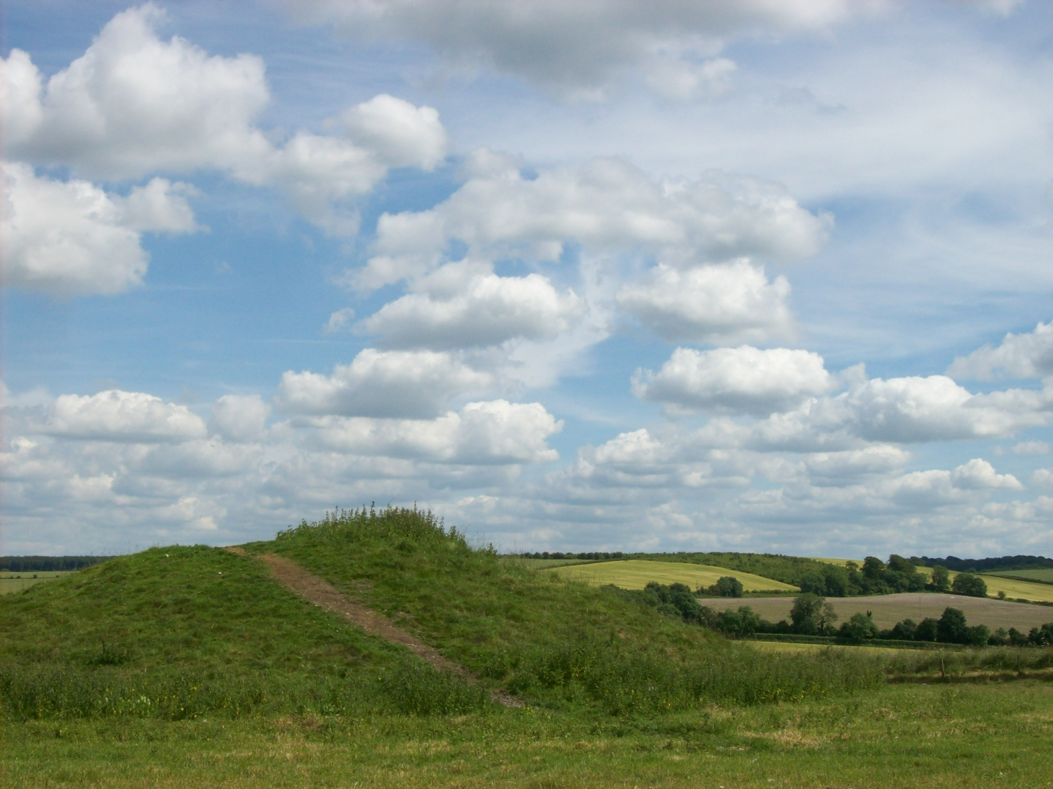 Round barrow, Overton Hill